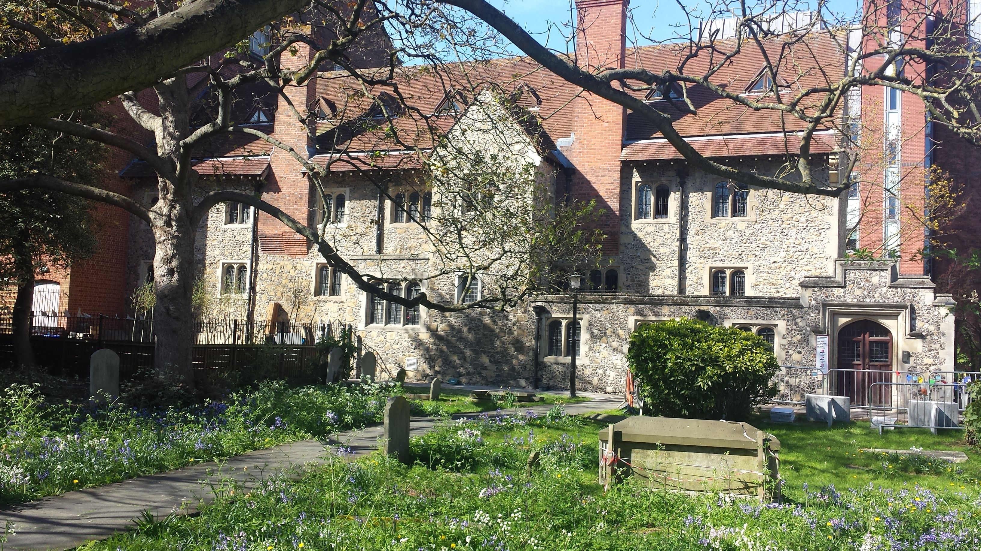 The Hospitium of St John the Baptist, part of the remains of Reading Abbey, Reading, England